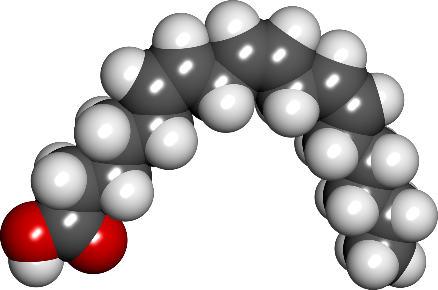 A space filling diagram of gamma-linolenic acid.